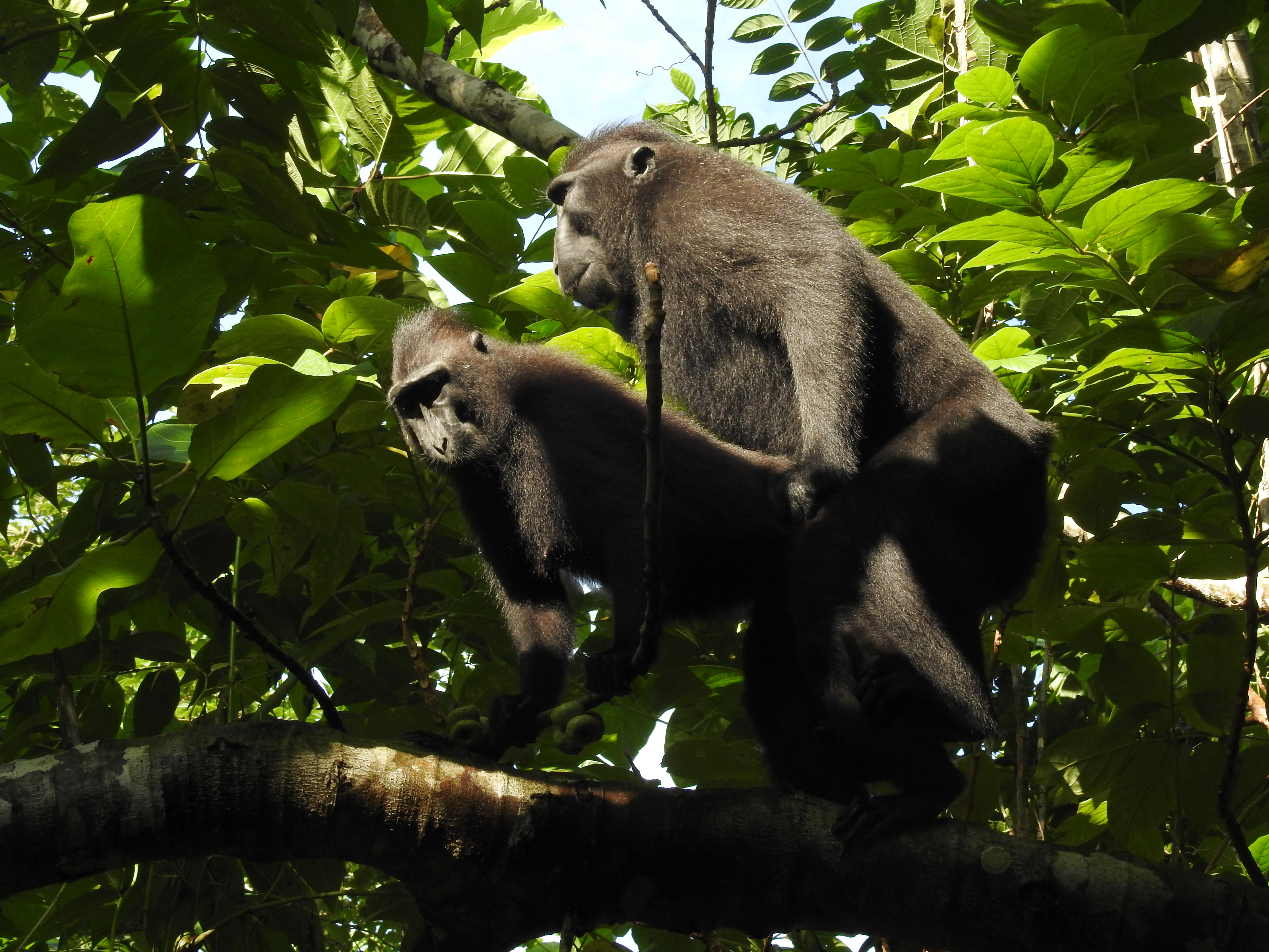 Celebes or Sulawesi crested macaque (Macaca nigra) in Tangkoko Nature Reserve, Sulawesi